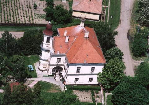 Tépe, Hungary, aerialphotography This is a photo of a monument in Hungary, Identifier: 5391